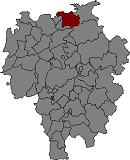 Location of Santa Maria de Besora in Osona